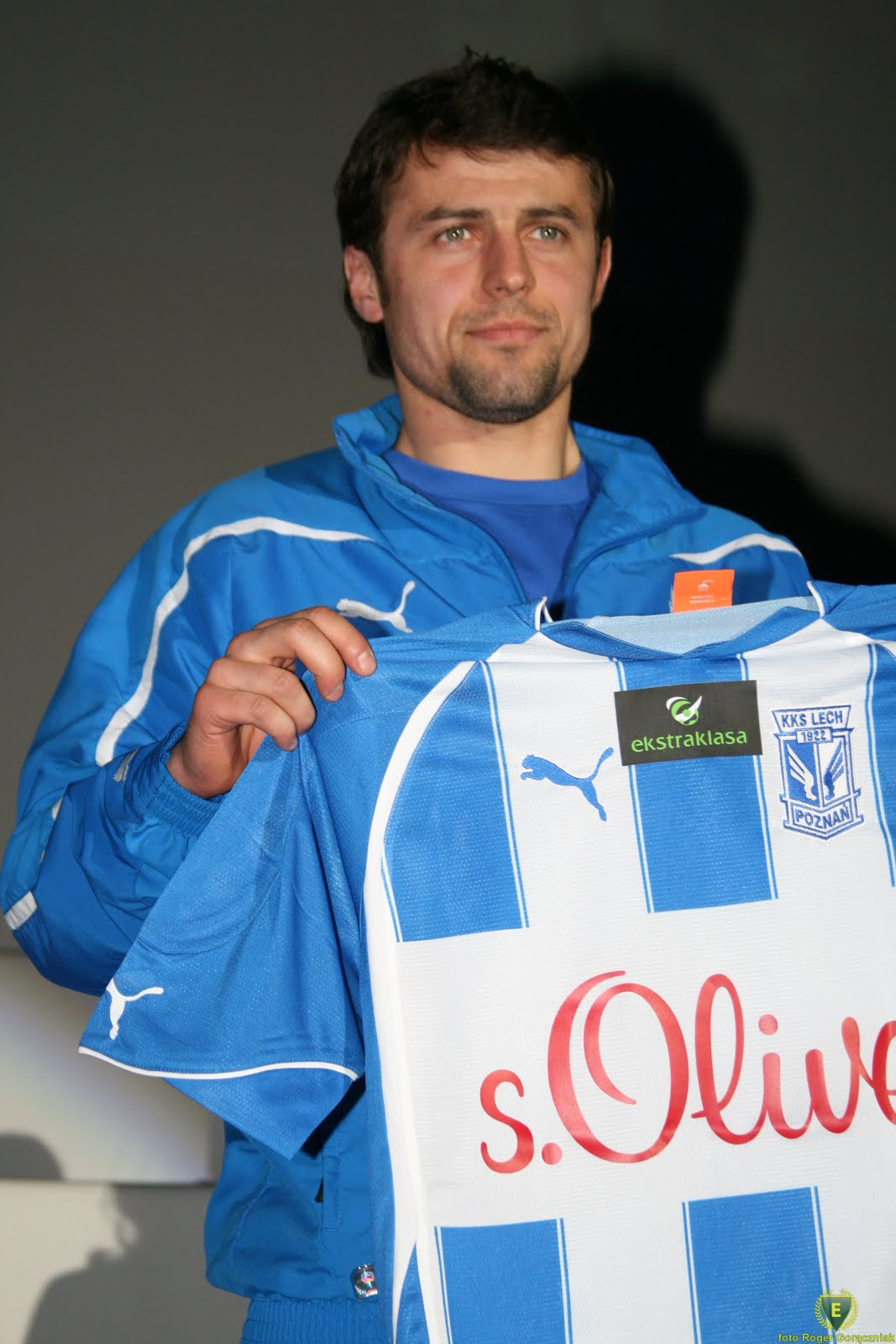 Polish football player Tomasz Bandrowski